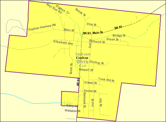 Map of Coalton, a village in Jackson County, Ohio, United States, with its boundaries at the time of the 2000 census.